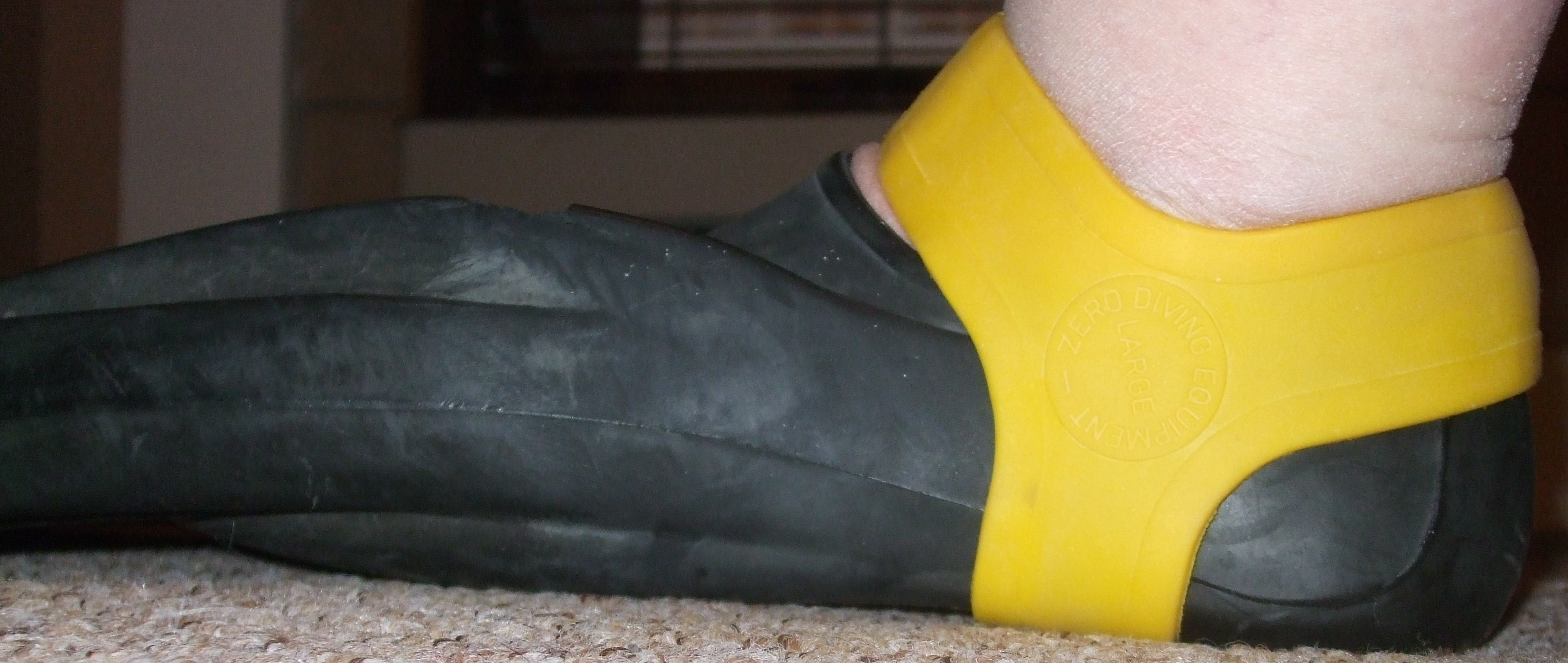 This image displays a yellow South African Zero Diving fin grip worn over the arch, the heel and the instep to secure a Technisub Ala full-foot swimming fin on the foot. Historically, Technisub Ala full-foot swimming fins have enjoyed an almost iconic international status as underwater hockey fins. Used to retain full-foot fins on the feet in choppy waters, yellow and red South African fin grips have become equally coveted underwater hockey accessories because of the visual contrast they make against the colour of the fins. Neither Technisub Ala fins nor Zero Diving coloured fin grips are in current production.